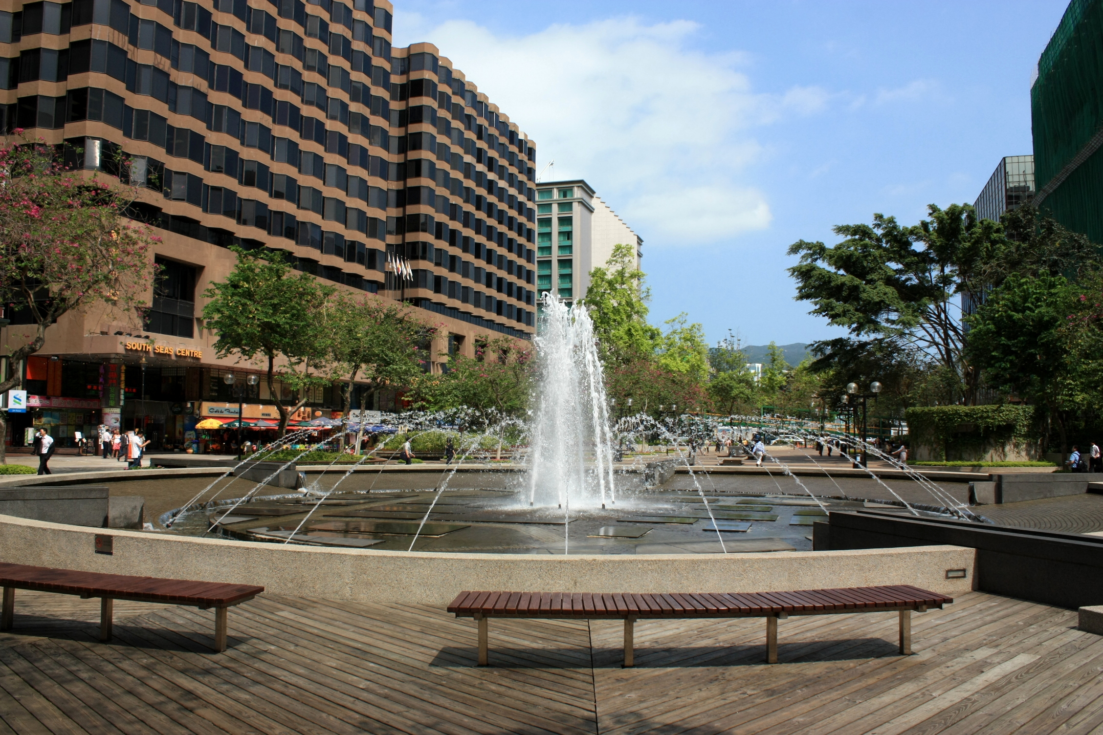 The Urban Council Centenary Garden Fountain 市政局百週年紀念花園